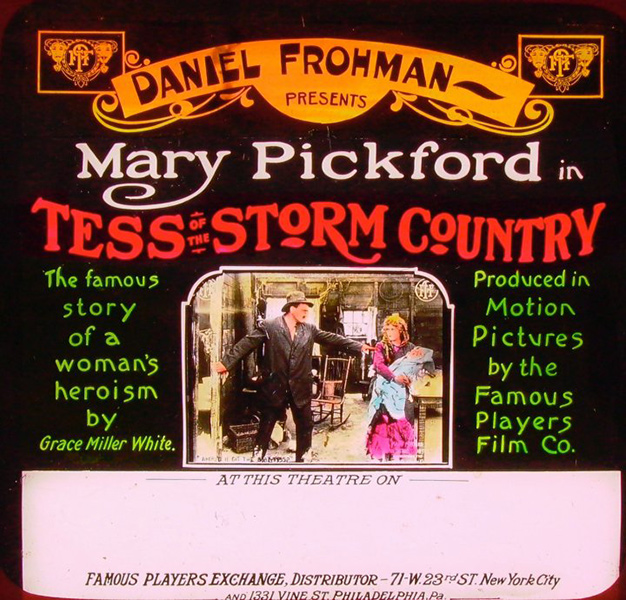 Tess of the Storm Country is a 1914 silent drama, based on the 1909 novel of the same name by Grace Miller White. This is a lantern slide for the film.